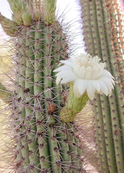 night blooming flower of Organ Pipe Cactus (Stenocereus thurberi subsp. thuberi). Photographed at Organ Pipe National Monument, Arizona, USA.